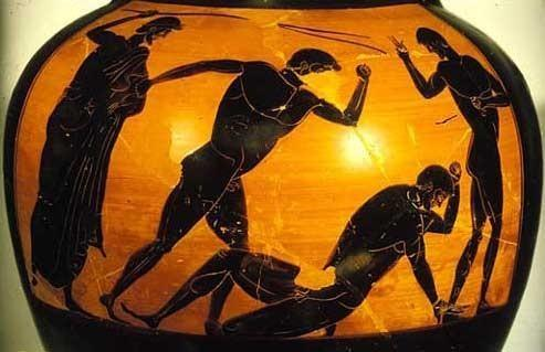 Panathenaic prize amphora. Pancratists, by the Berlin painter. 490 B.C. Staatliche Museen, Berlin.